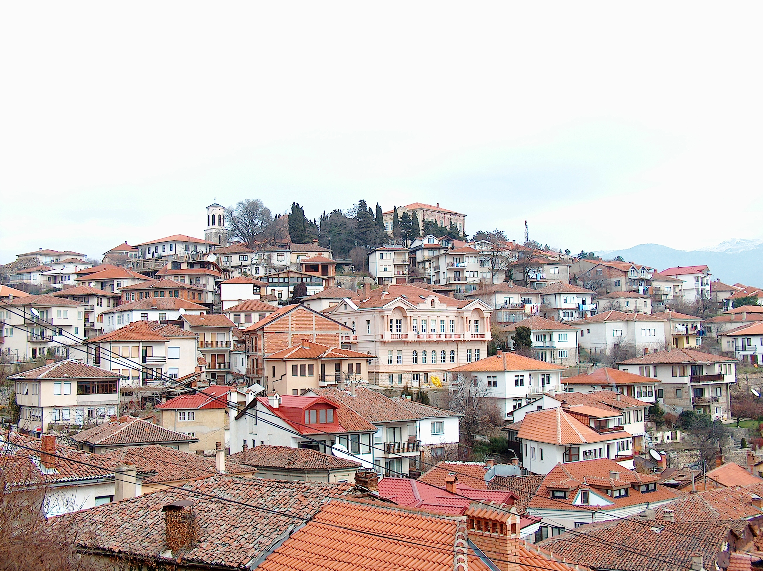 Ohrid Old Town, Republic of Macedonia